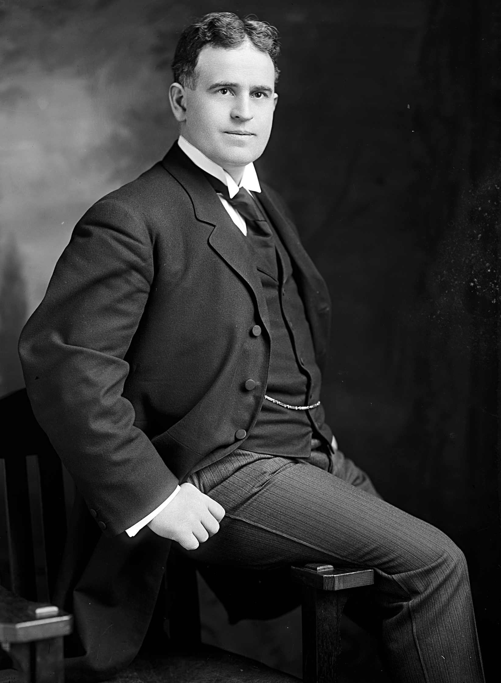 Joseph F. O'Connell, US Representative from Massachusetts